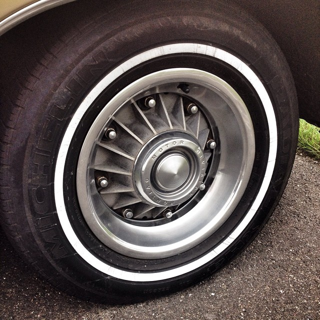 Pontiac 8-Lug Rim